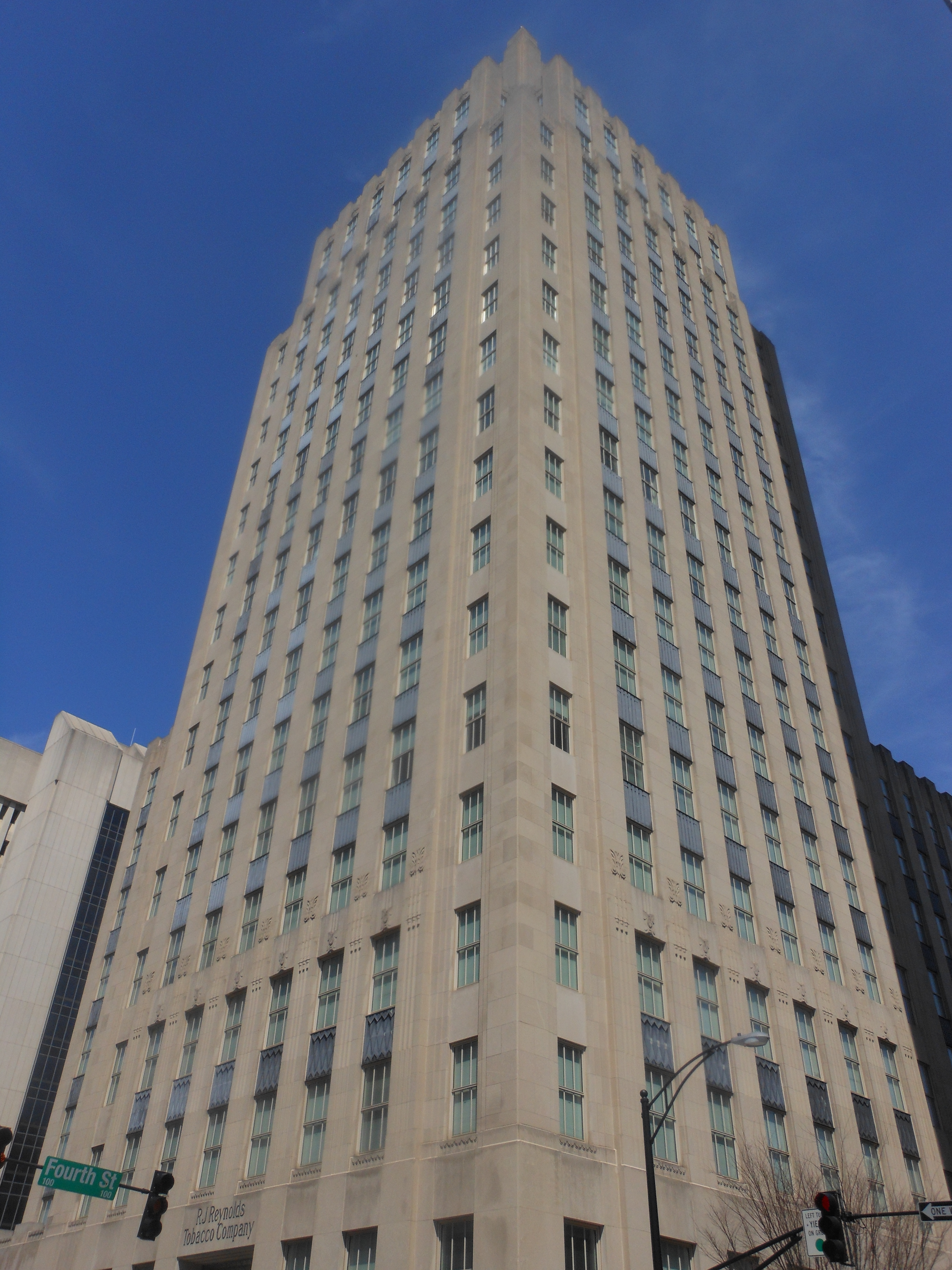 Reynolds Building in Winston-Salem, NC.